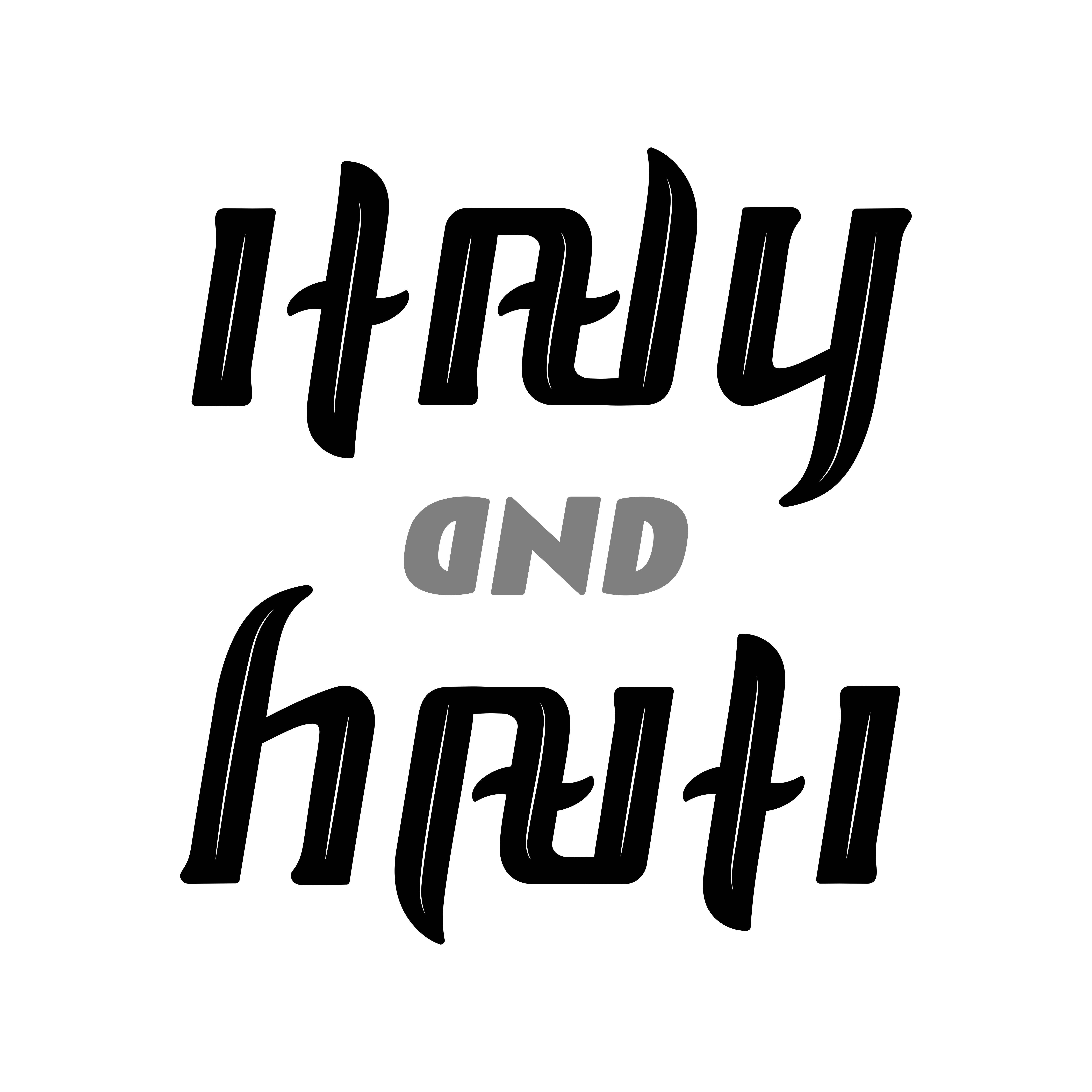 Ambigram Italy and Haiti. 180° rotational symmetry. See Italian Haitians.